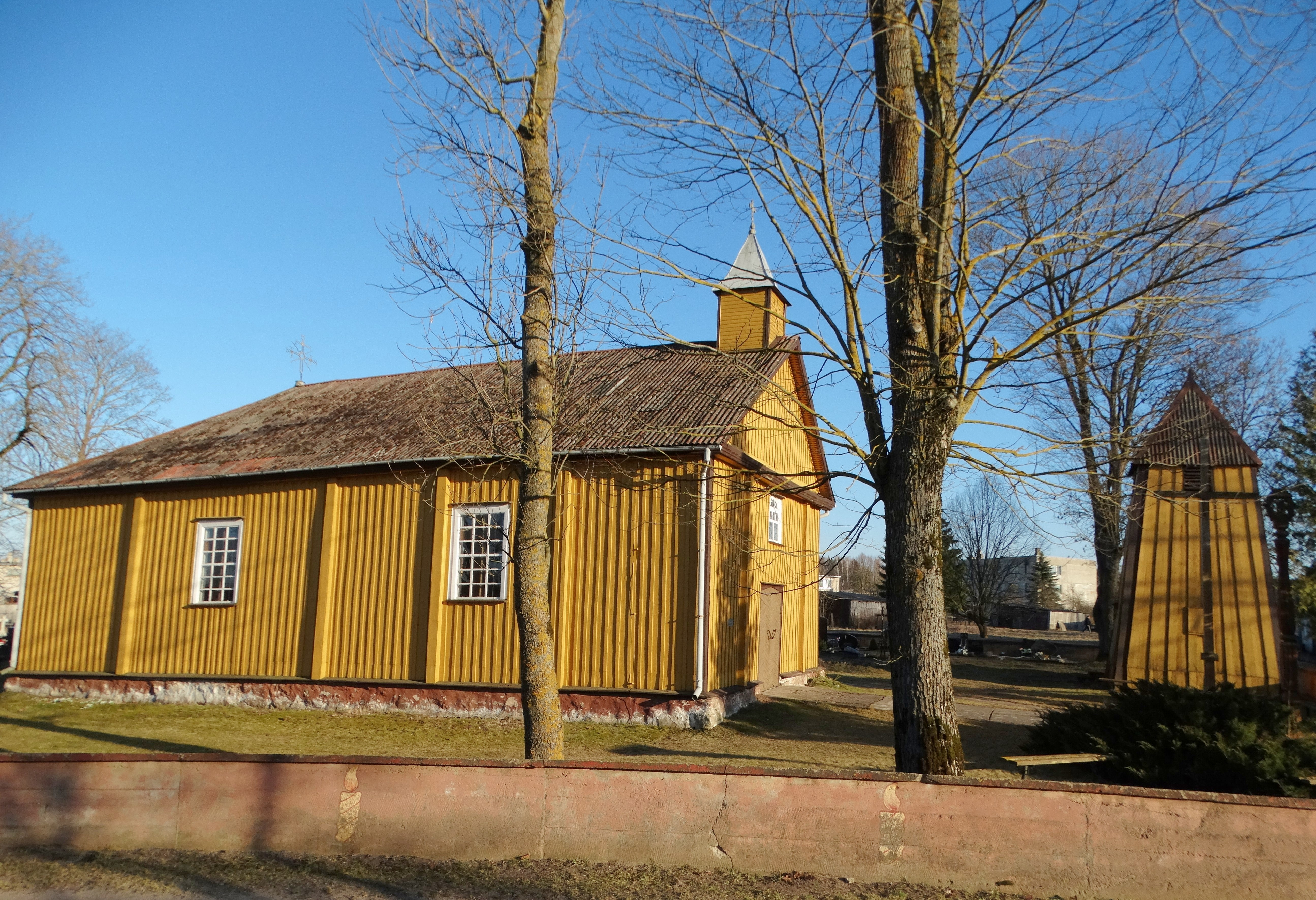 Church of St. Anthony of Padua, Varputėnai, Šiauliai district, Lithuania